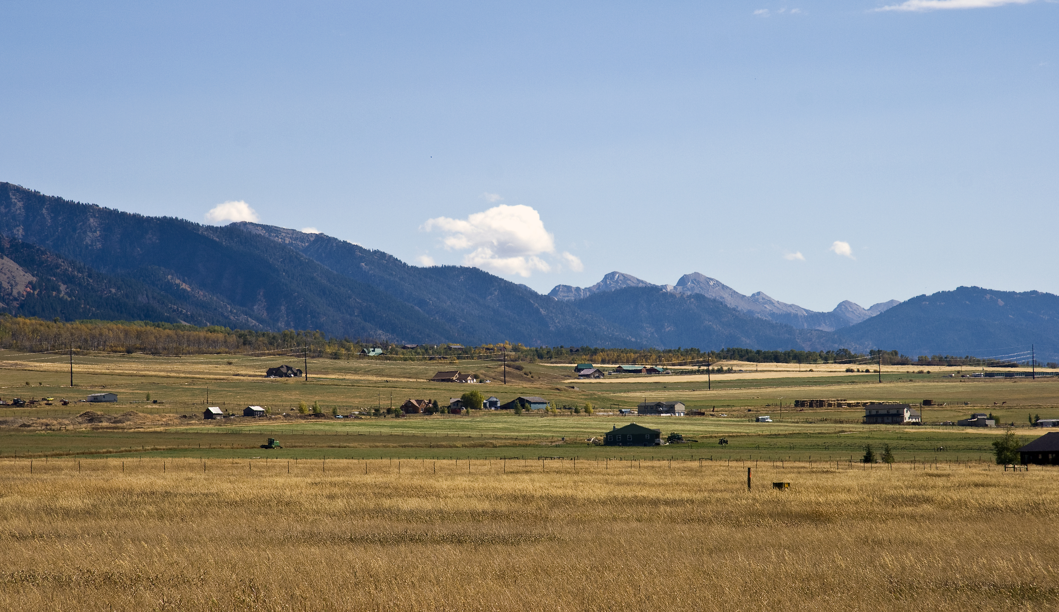 Salt River Range, Lincoln County, Wyoming, USA. Haystack Peak and others in the distance